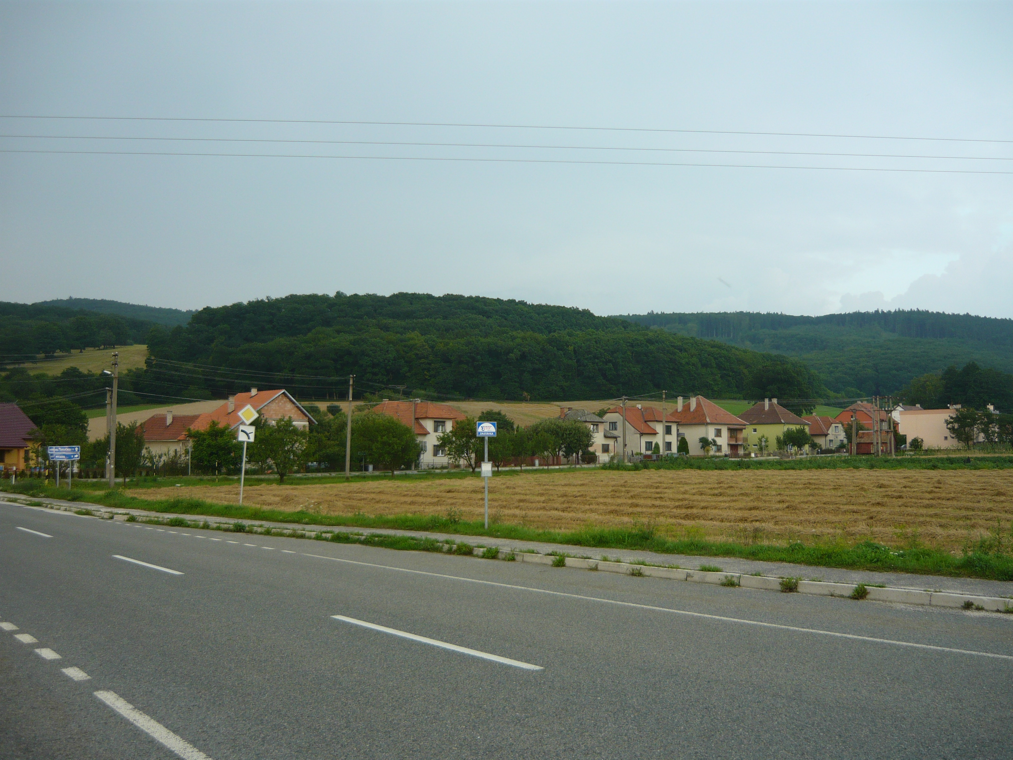 Šance, part of the municipality Vrbovce, Slovakia